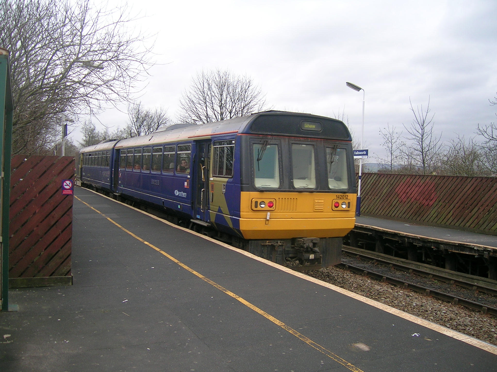 A British Rail Class 142 train at Failsworth railway station, at Failsworth, Greater Manchester, England. This train is bound for Shaw and Crompton.